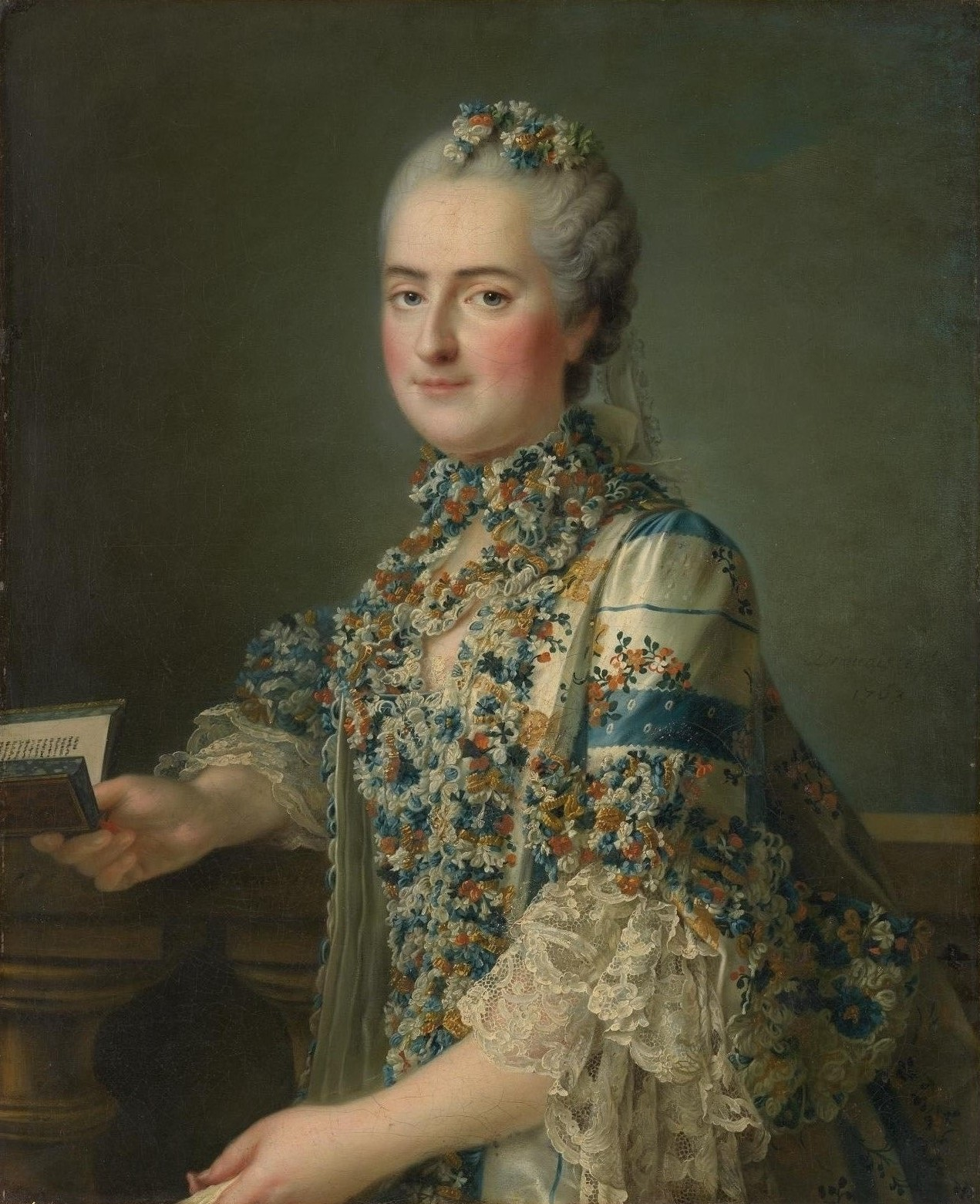 Louise-Marie of France, known as Madame Louise (1737–1787), daughter of Louis XV